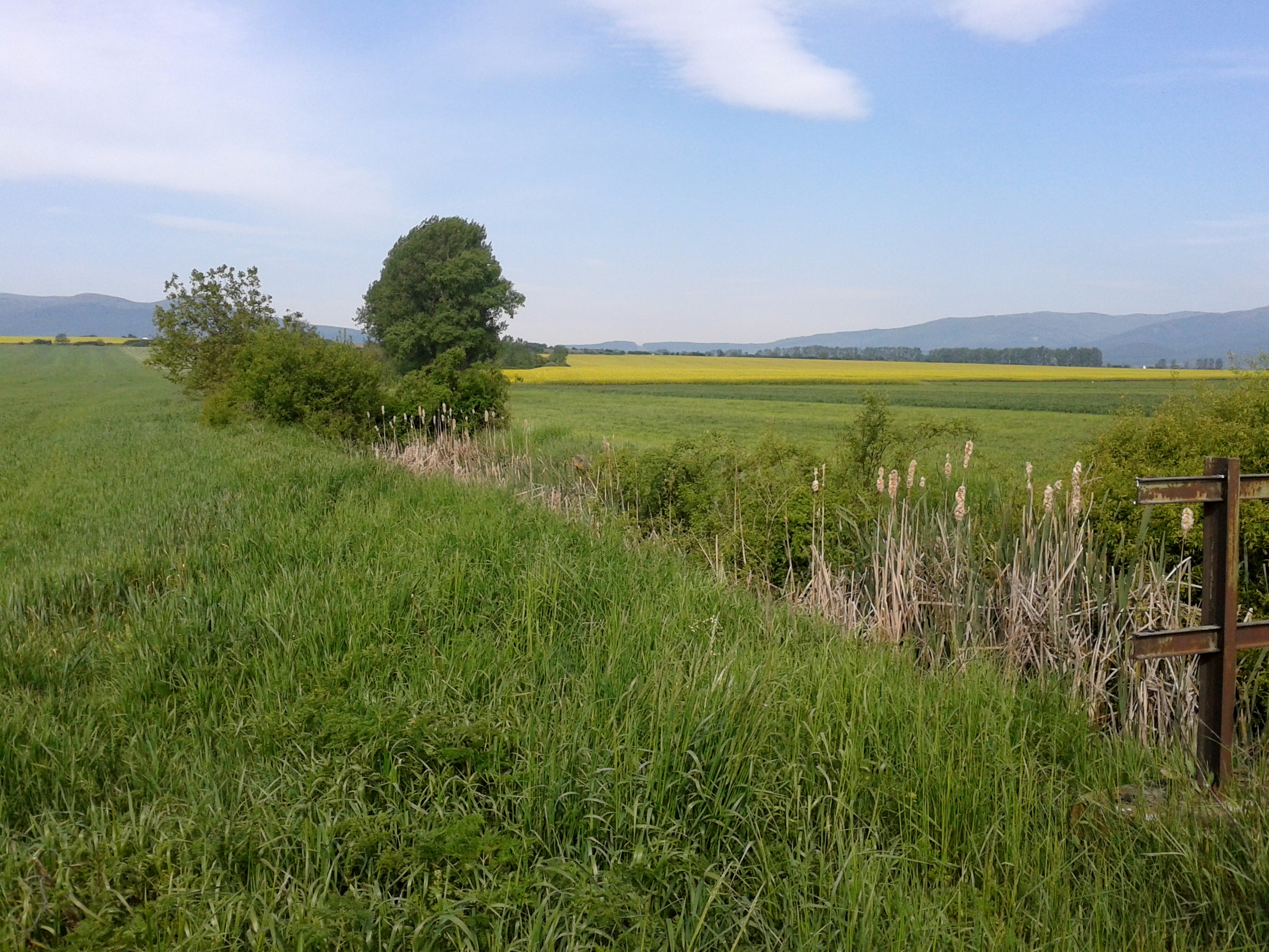 Weiss Stream (in Slovak: Weissov kanál), near the Town of Sečovce